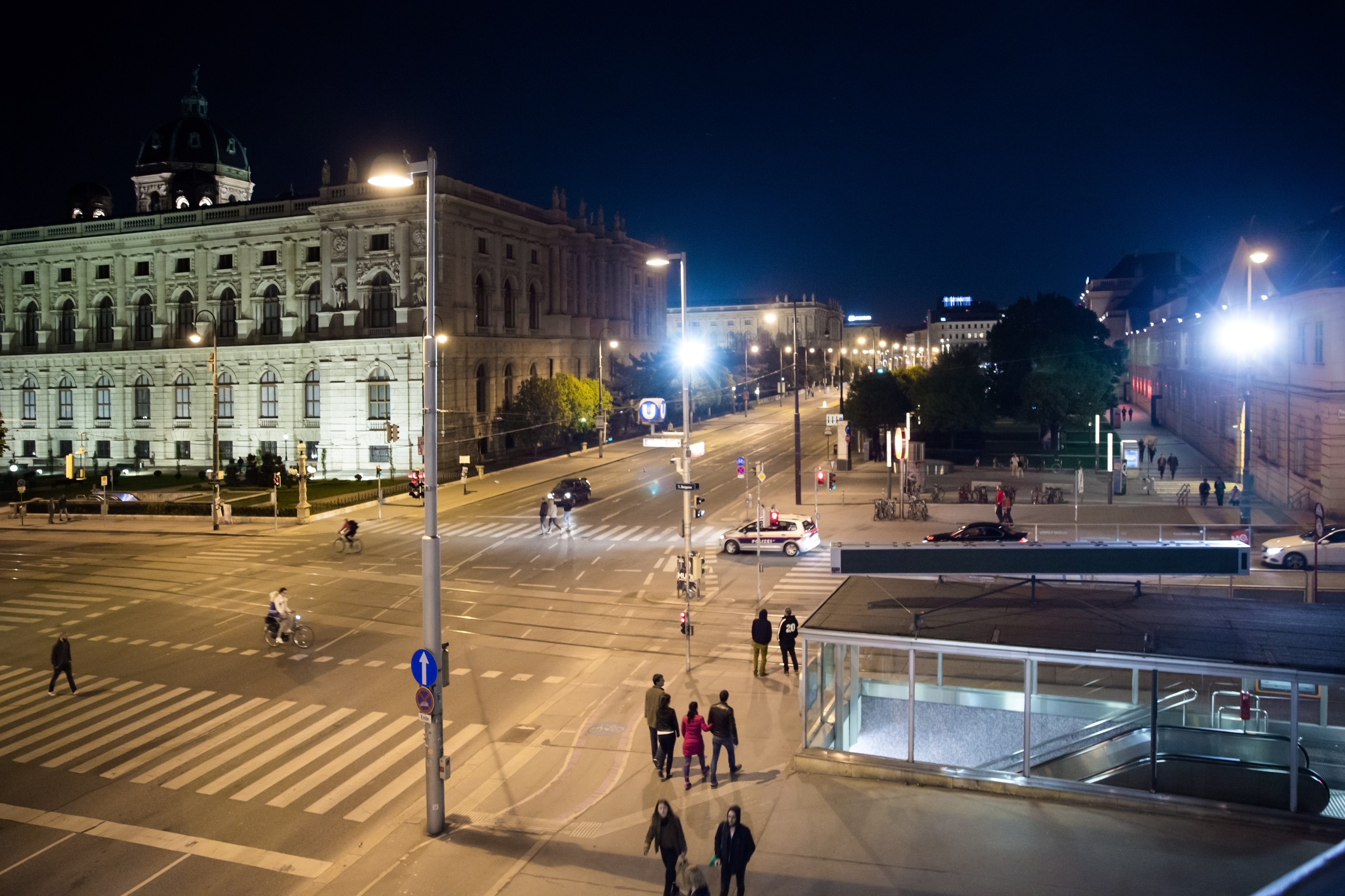 View from the balcony of Volkstheater towards Museum of Natural History, Vienna, Austria.